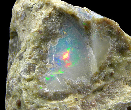 Opal (Var.: Precious Opal) Locality: Gracios O Dios Mine, Honduras (Locality at ) Size: 3.1 x 2.8 x 2.1 cm. Opal is one of those minerals that looks as beautiful and impressive when it is opaque as when it is water clear. The amazing range of this material (considering the simplistic chemistry) makes it an interesting mineral, and that's saying a lot considering the species does not even have any crystal form. The Opal from this Gracious O Dios Mine have been mined for over 150 years, and have proven to be some of the more attractive yet lesser known from the Western Hemisphere. This piece features a few very attractive patches of multicolor Opal on matrix which shows flashes of red, gold, orange, blue and green. Ex. Brian Kosnar Collection.